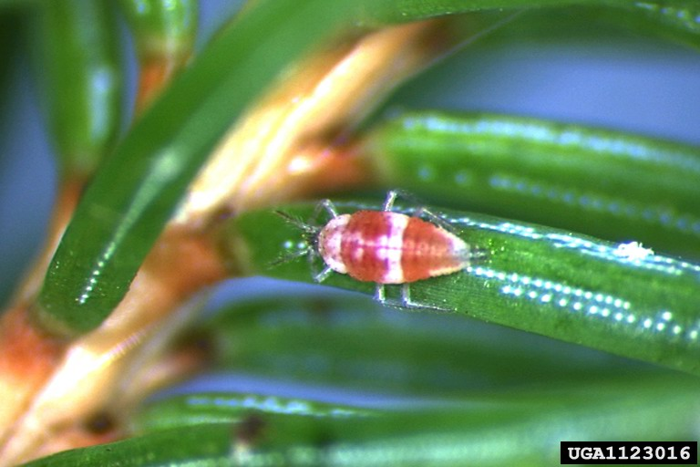 a larva of a species of Coniopterygidae found on Picea in the United States